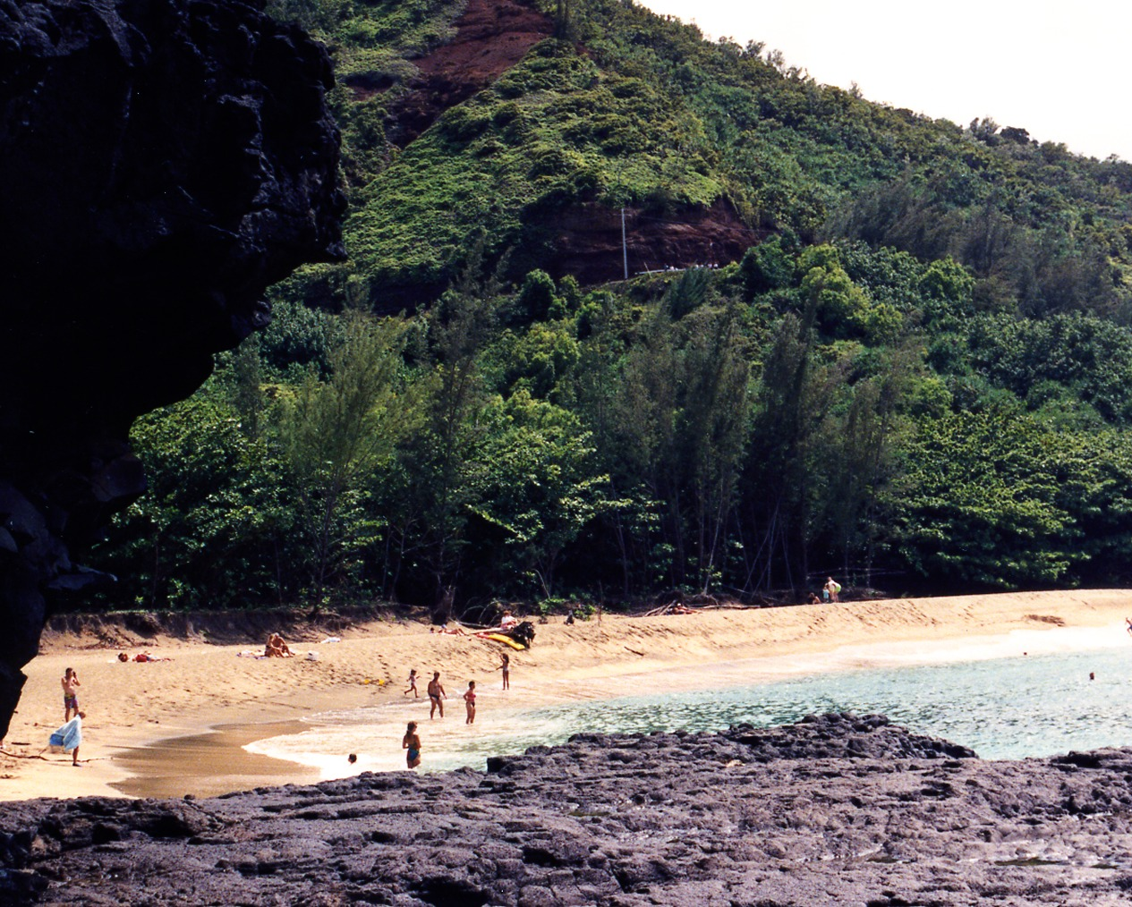 Lumahai Beach, Kauai